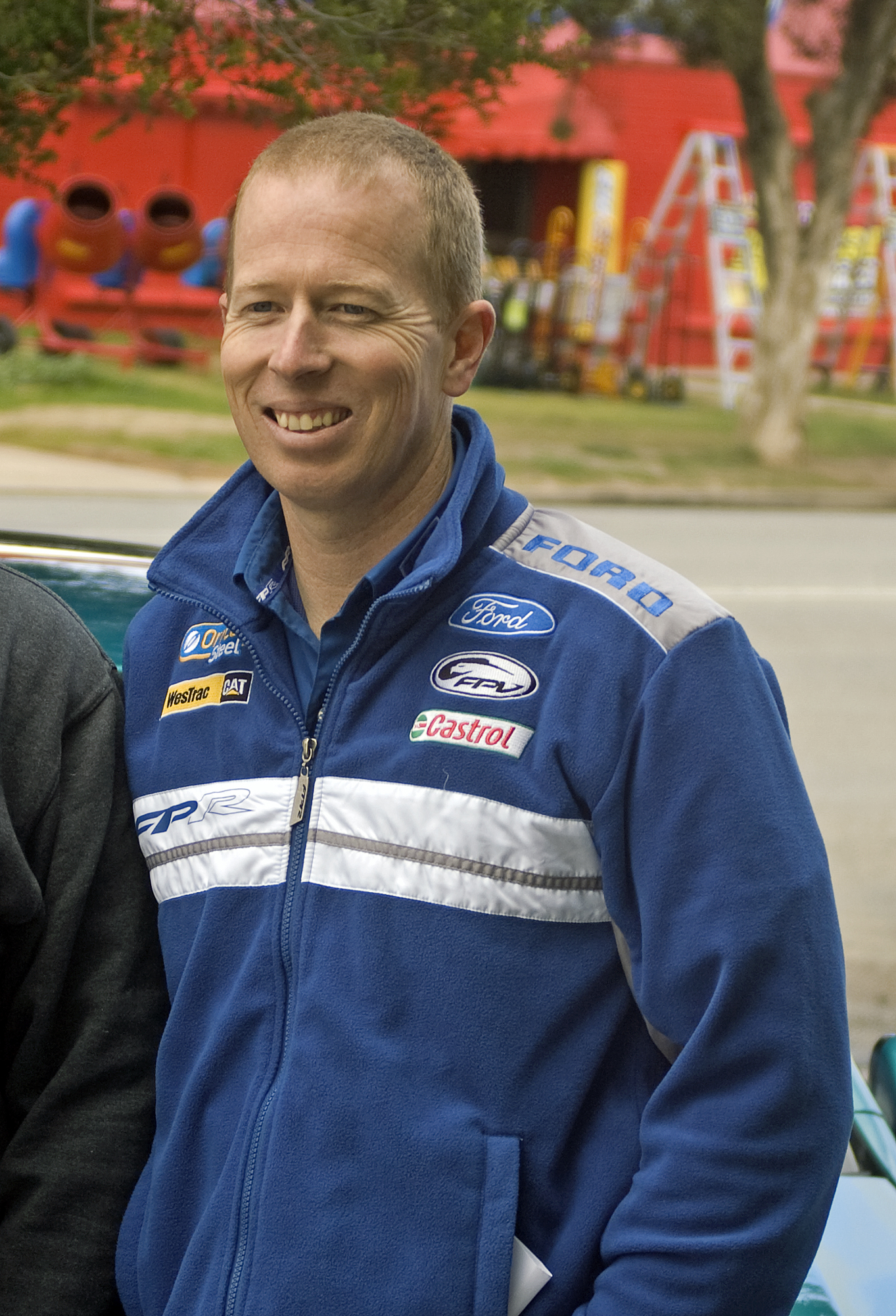 FPR driver Steve Richards.